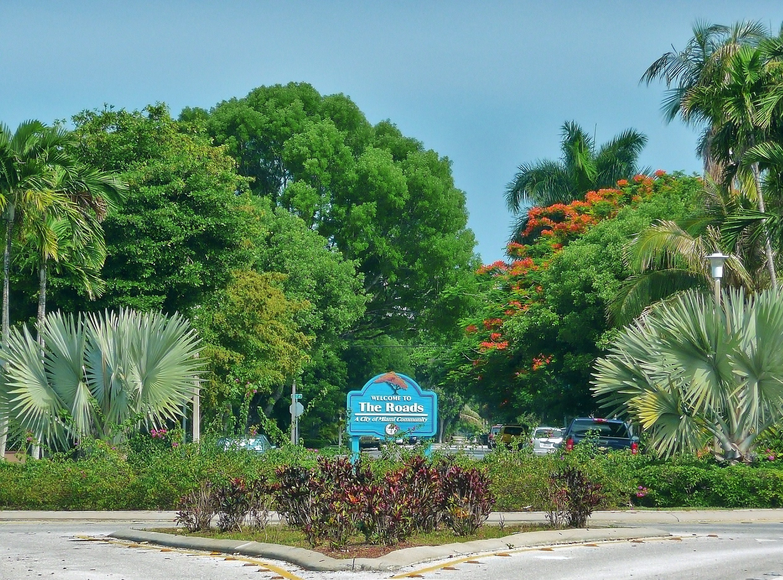 Digital photo taken by Marc Averette. The Roads neighborhood near Downtown Miami, Florida, United States.